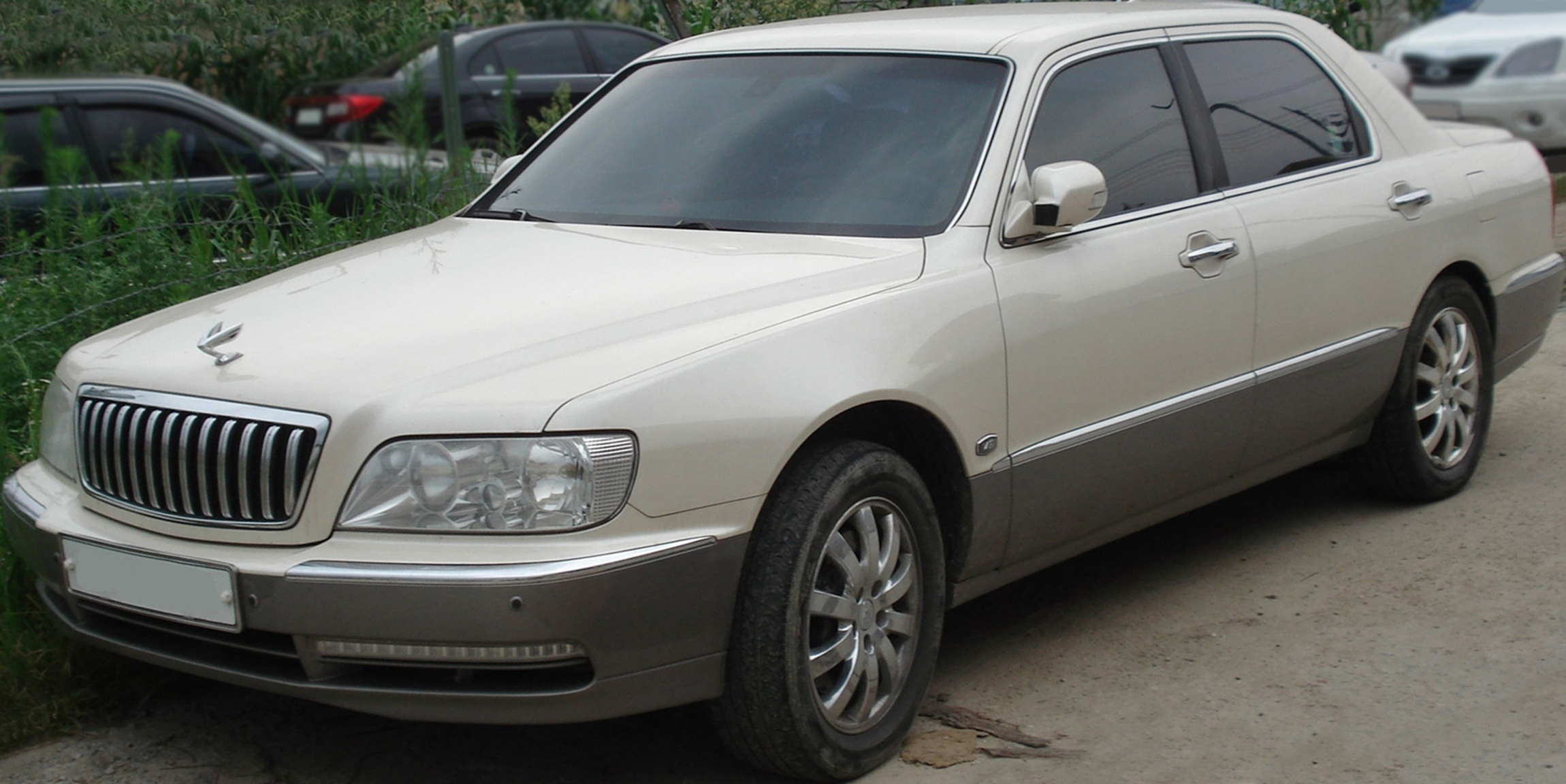 Hyundai Equus